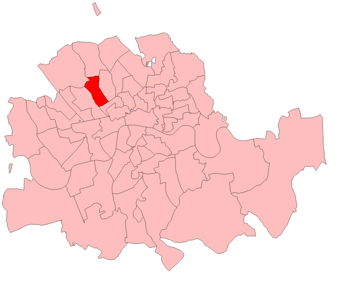 A map of St Pancras West constituency within the Metropolitan Board of Works area, as it existed from 1885 to 1918.